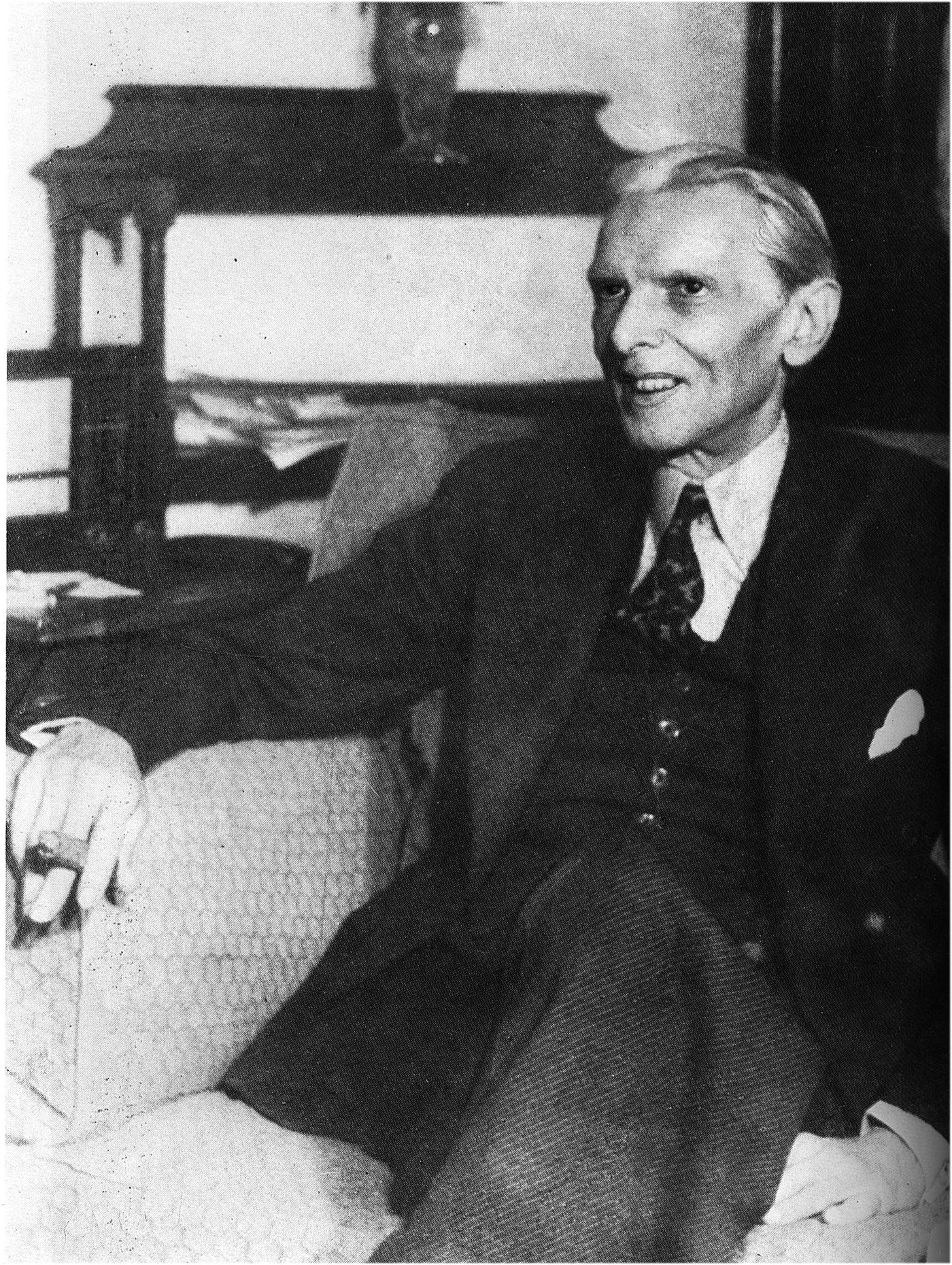 Depicted person: Muhammad Ali Jinnah – Founder and 1st Governor General of Pakistan